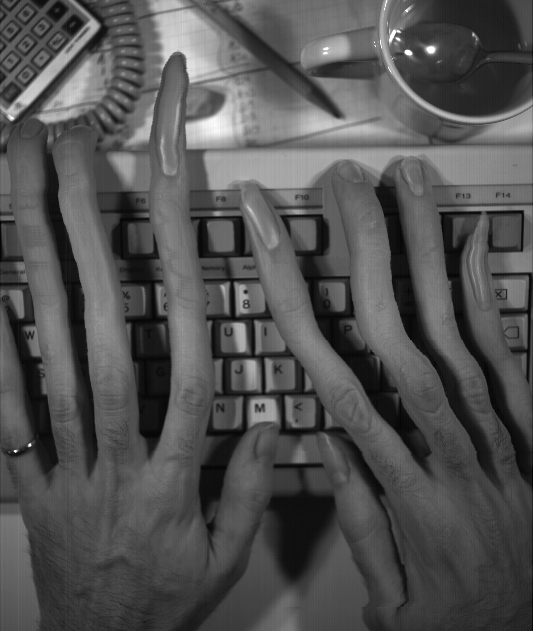 Here's a self-portrait I did, using slit-scan apparatus around the mid 1980s